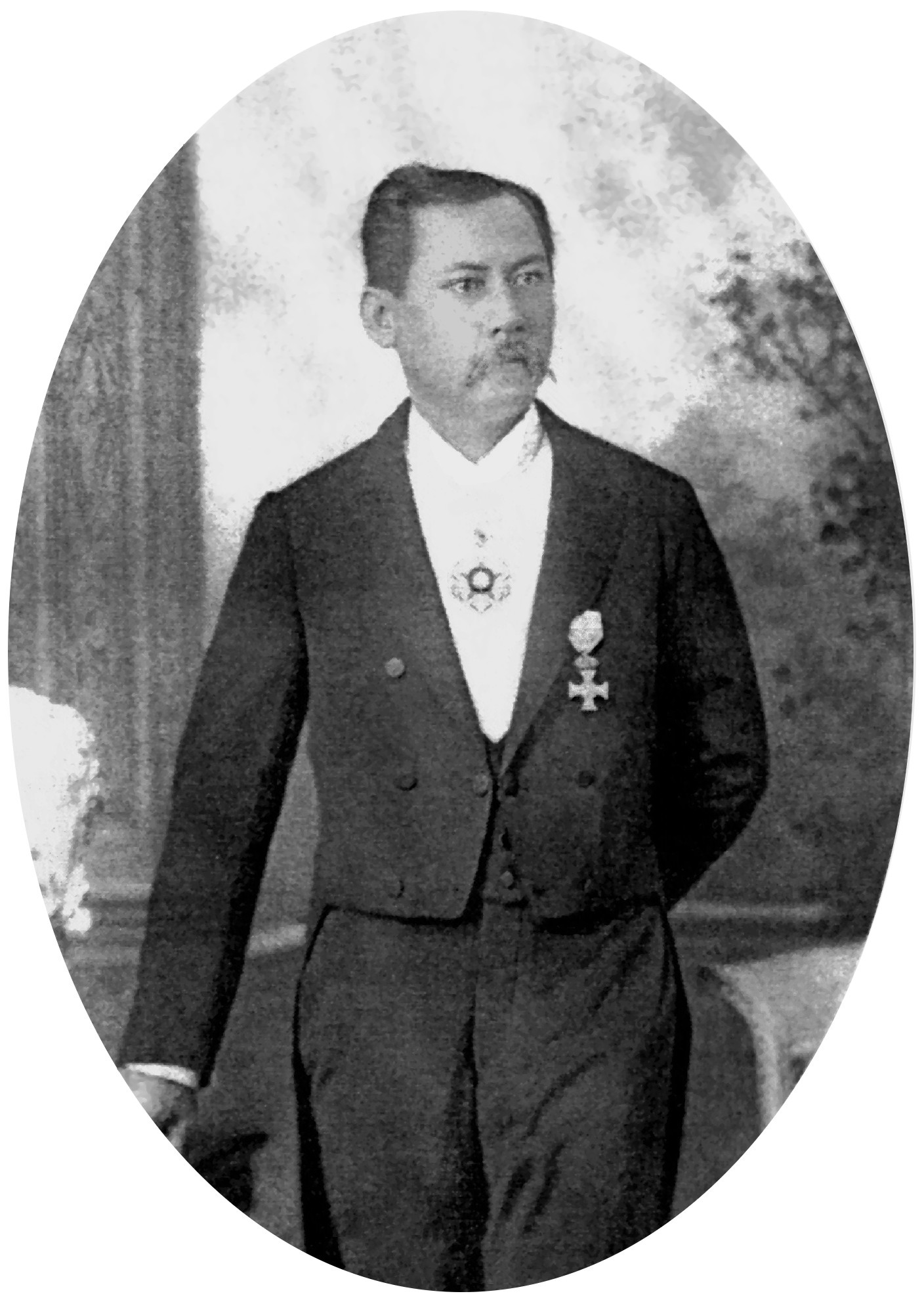 John Liwaikalaniopuu Ena, oldest son of John Ena (Zane Shang Hsien) and Kaikalani. Born on November 18, 1845 in Hilo, Hawaii, he died on December 12, 1906 in Long Beach, California. He was a prominent Hawaiian businessman, and became president of Inter-Island Steam Navigation Co., a member of the House of Nobles decorated by King Kalakaua in 1888, served on Board of Health under provisional government. A member of the constitutional convention that set up the Republic of Hawaii.